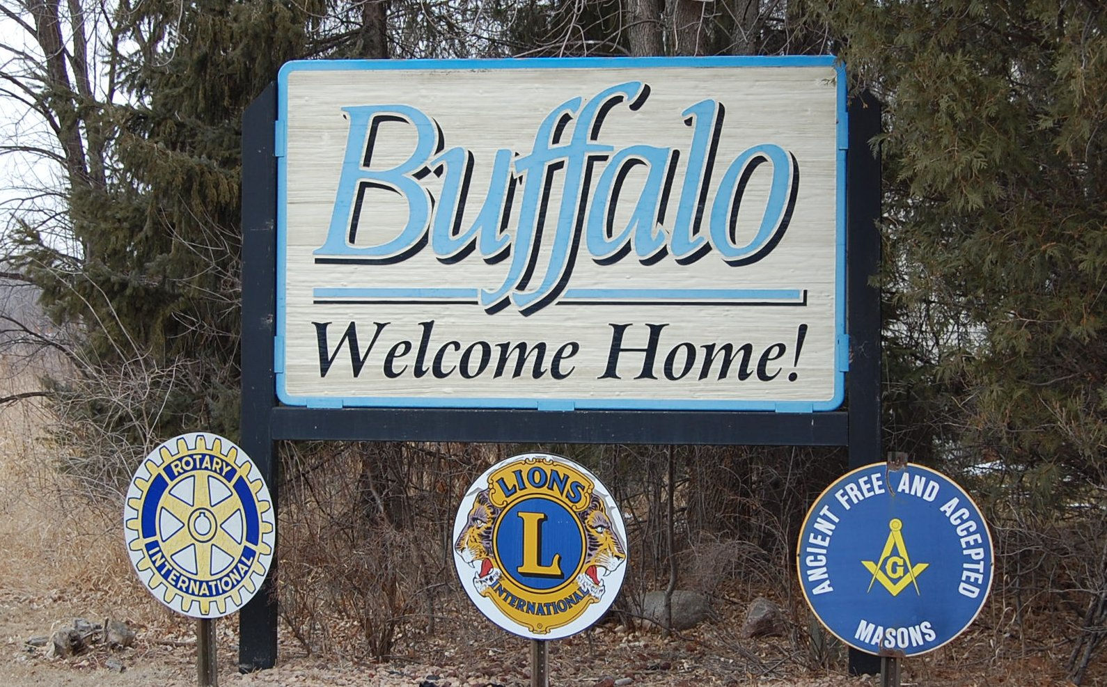 Welcome sign entering Buffalo, Minnesota